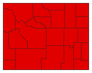 The county results for the 2010 Wyoming Secretary of State election.